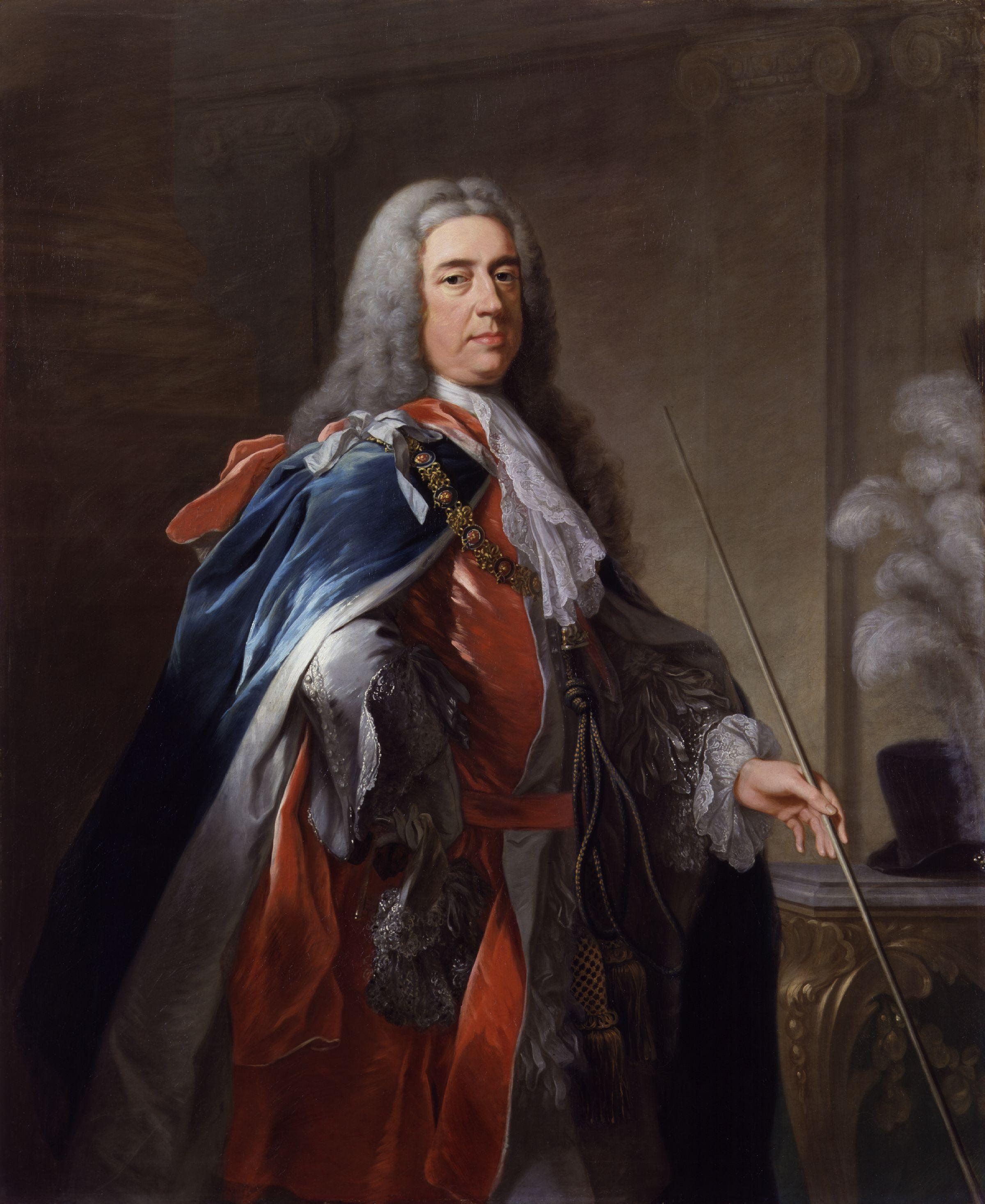 All images in this batch have been confirmed as author died before 1939 according to the official death date listed by the NPG.